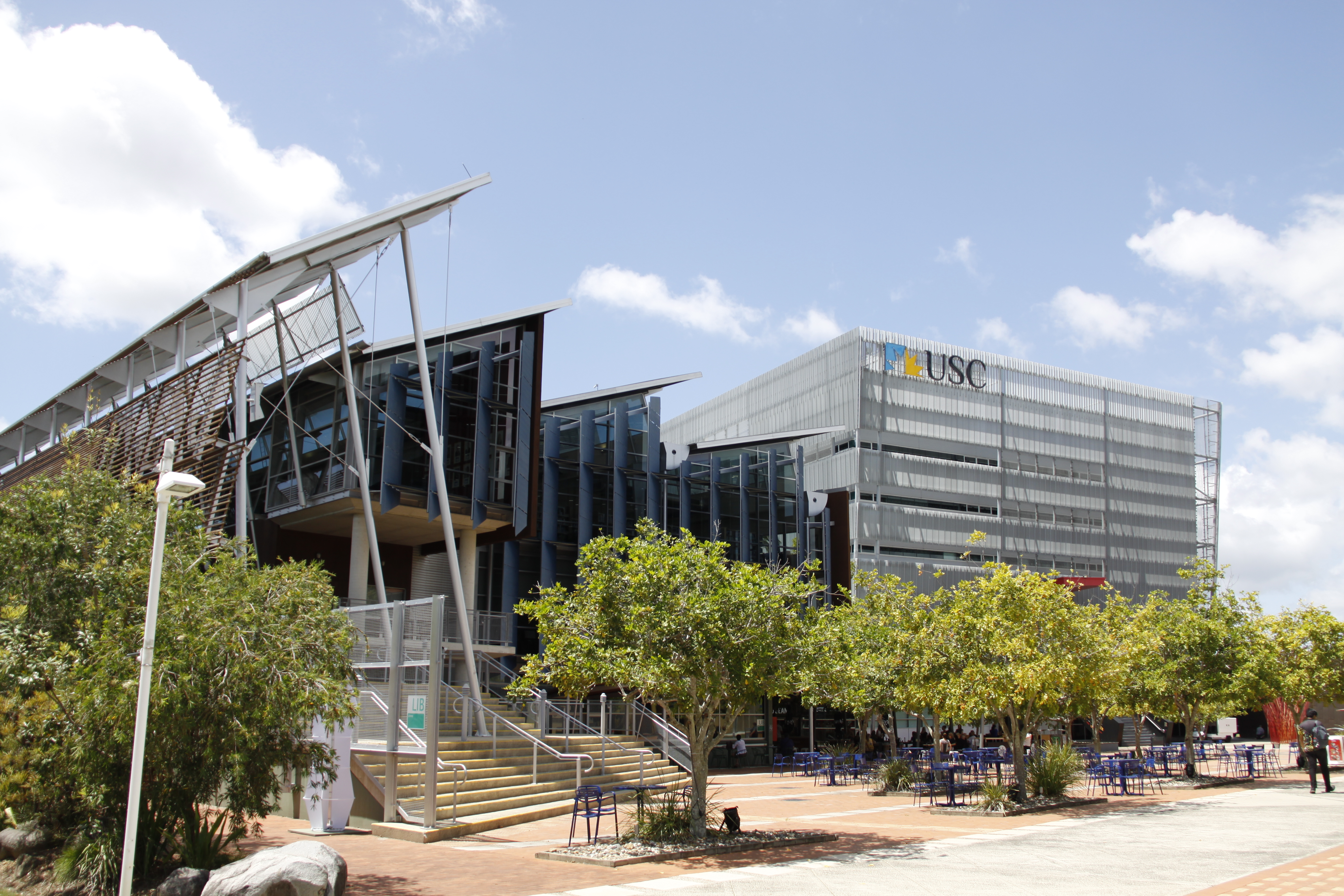 USC Australia central buildings at the Sunshine Coast campus September 2019. USC has seven campuses, with the first and largest at Sippy Downs on the Sunshine Coast.